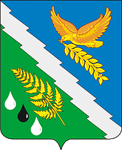 Coat of Arms of Khadyzhensk (2012)